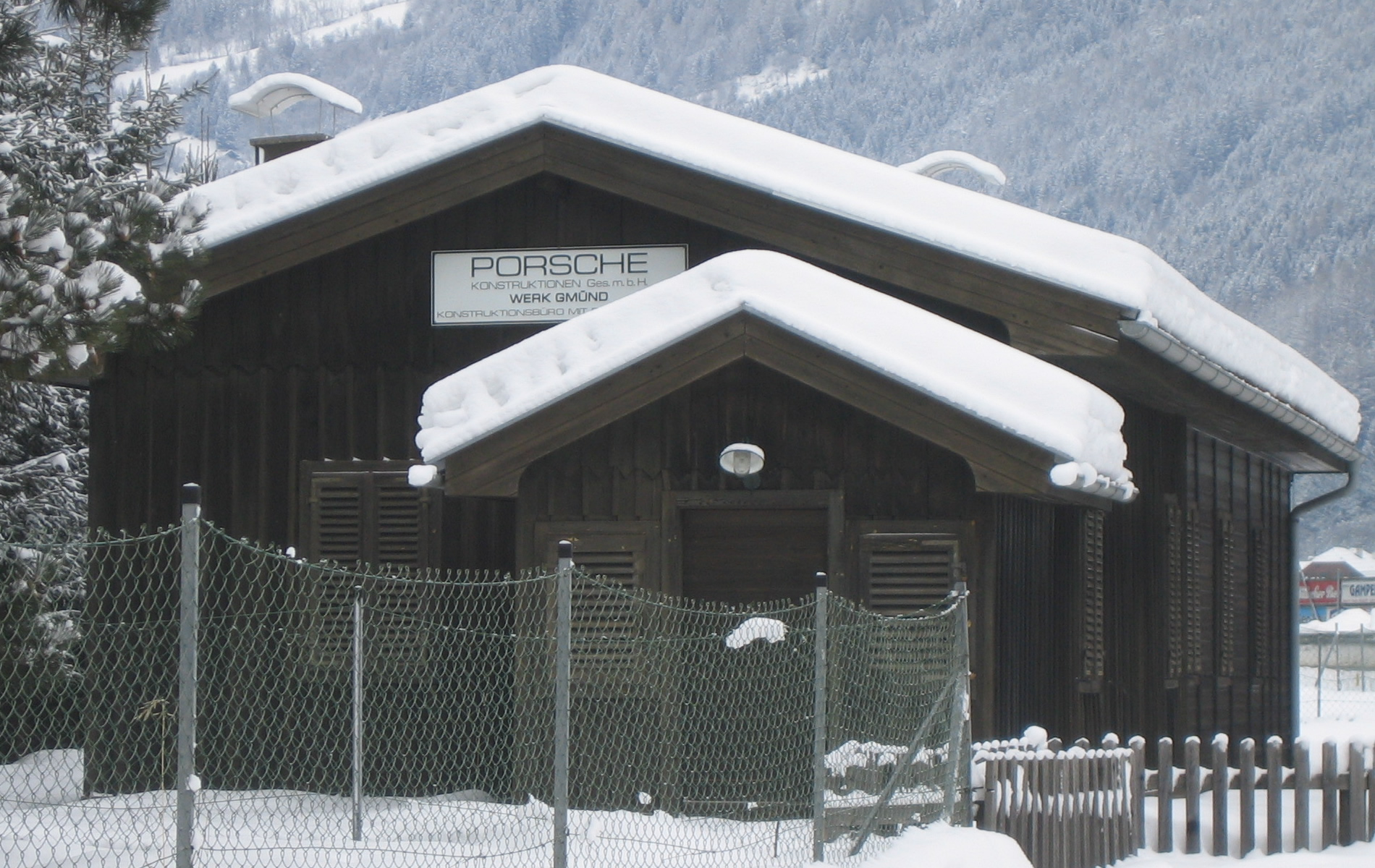 Ancient Porsche engineering office in Gmünd, Carinthia